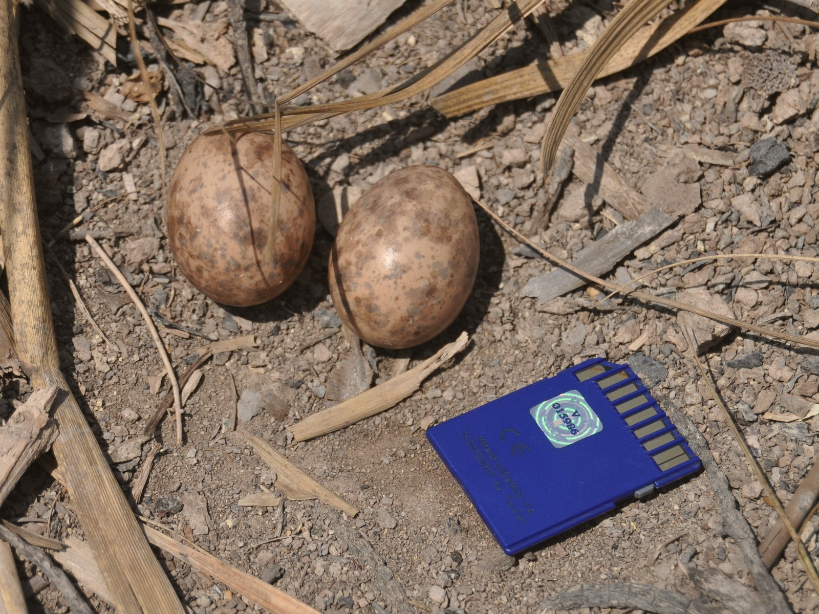 Savannah Nightjar (Caprimulgus affinis) eggs in it's nest --an SD card for comparison. From South Sumatra, Indonesia